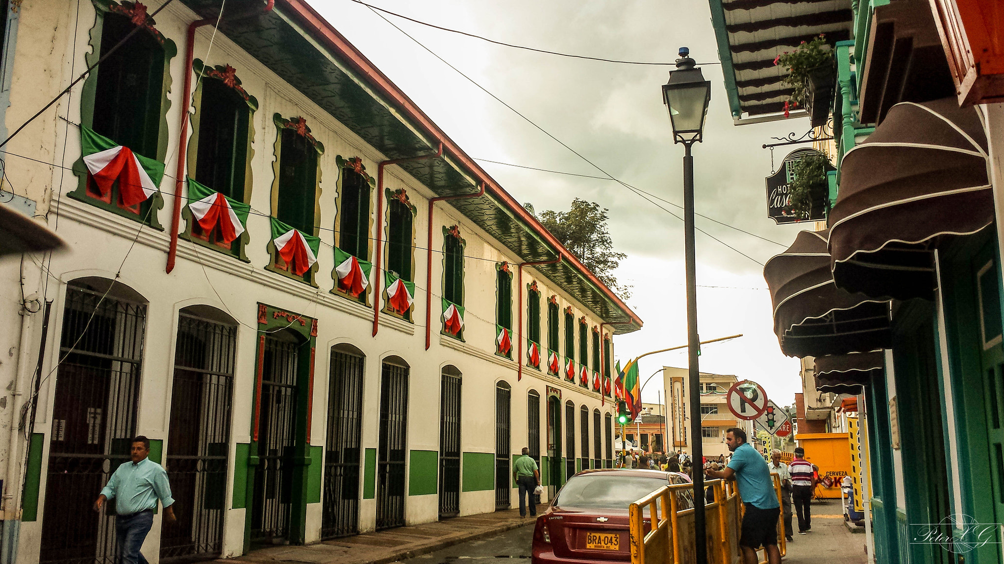 500px provided description: I was at the corner of town square (Plaza de Bol?var) and I took this photo during the 131 anniversary in June. [#sky ,#street ,#architecture ,#colombia ,#colorful ,#colonial ,#quindio]